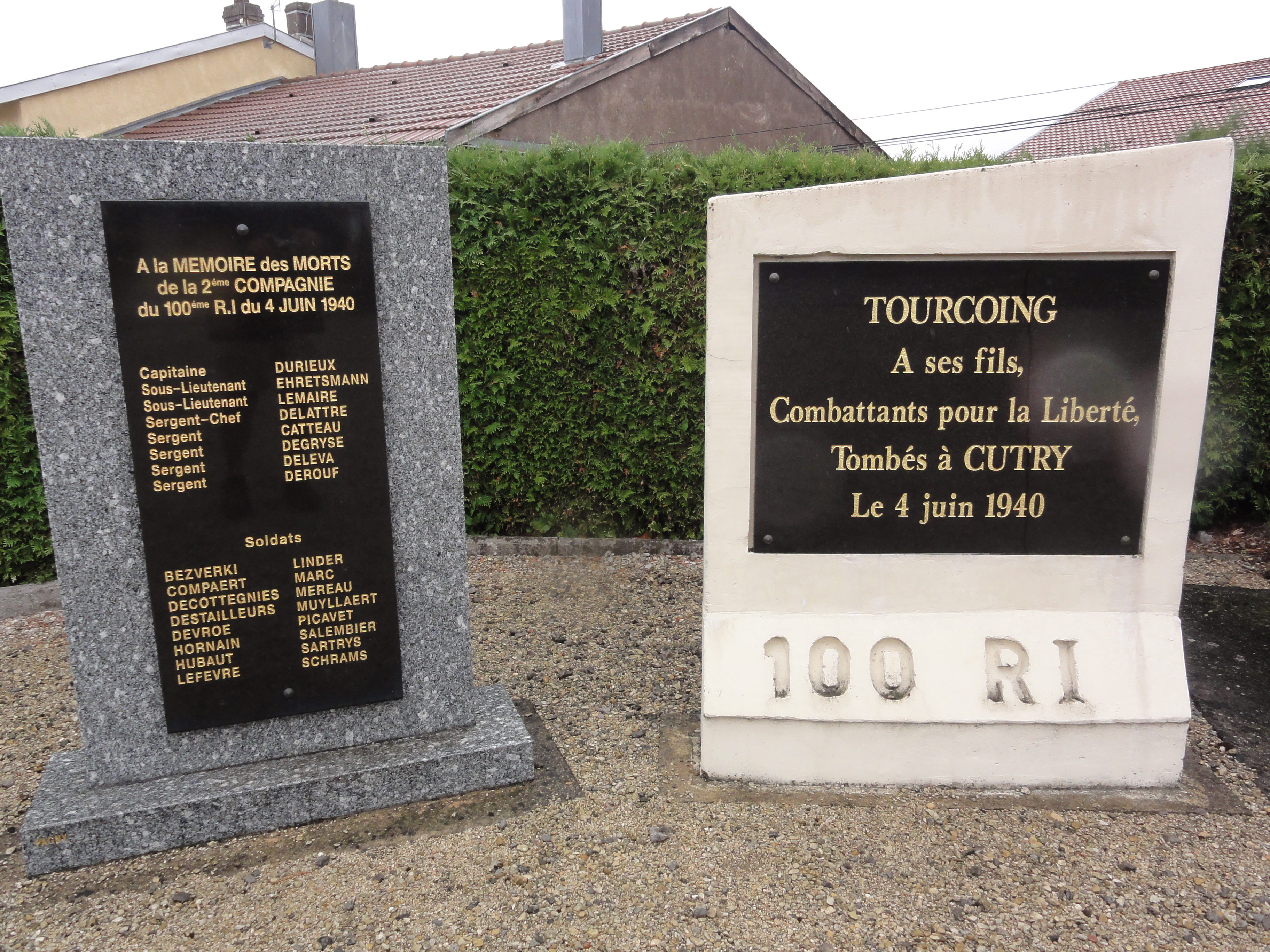 Cutry (Meurthe-et-M.) monument aux morts